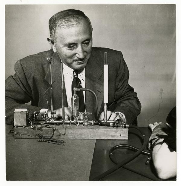 View of Dr. David Wechsler seated at a table, conducting some sort of test on a patient.